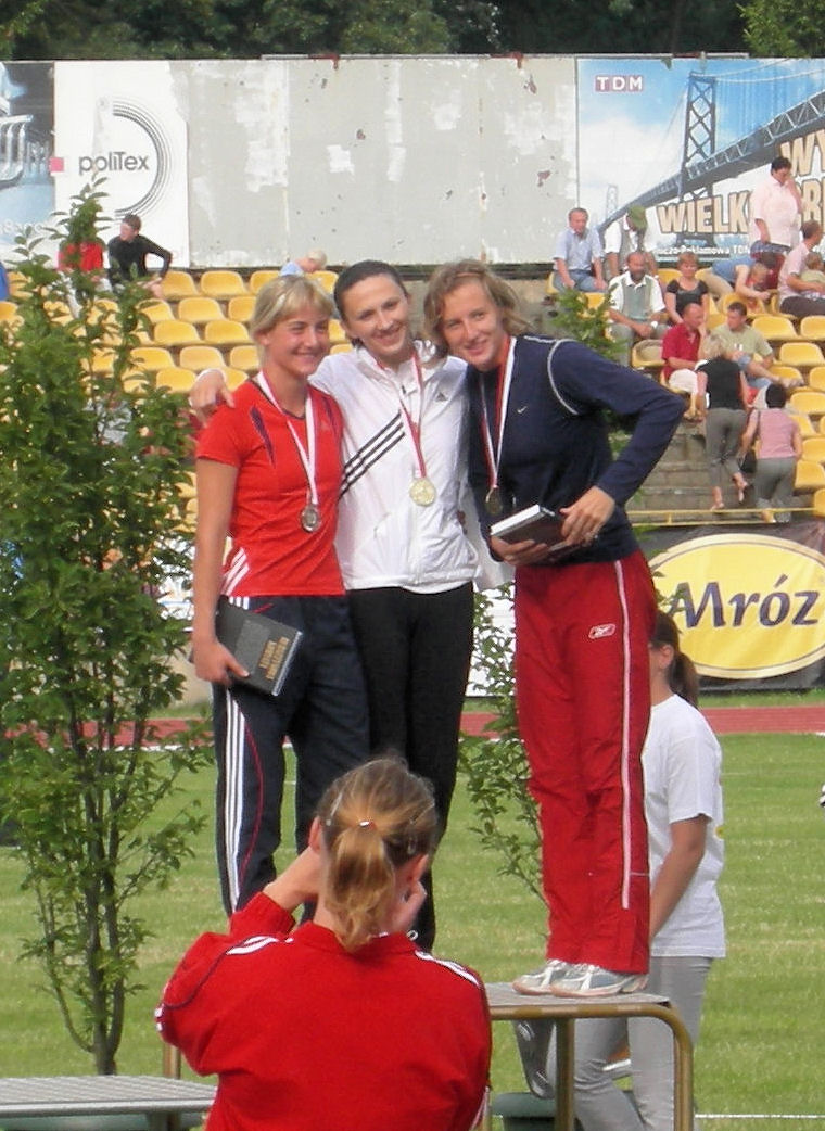 athletes from Poland during Polish Championship in athletics 2007 - Poznań